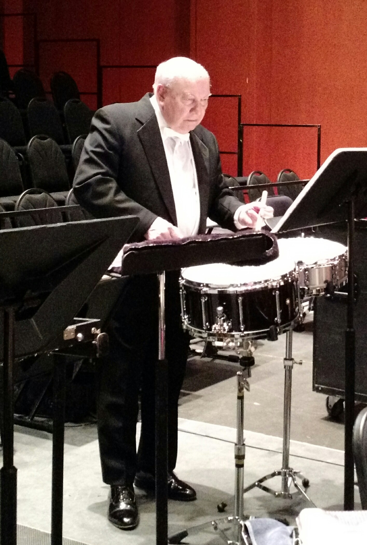 Alan Abel playing snare drum